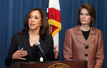 Attorney General Kamala D. Harris Announces Mortgage Investigation Alliance December 6, 2011 Attorney General Harris, joined by Nevada Attorney General Catherine Cortez Masto, today announced a joint investigation alliance designed to assist homeowners who have been harmed by misconduct and fraud in the mortgage industry.